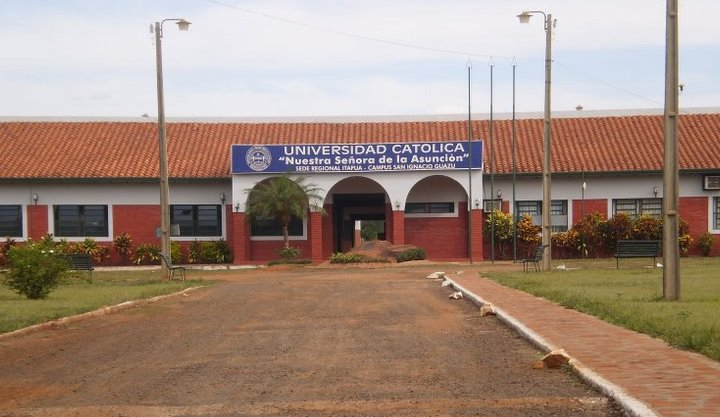 Universidad catolica, san ignacio misiones paraguay